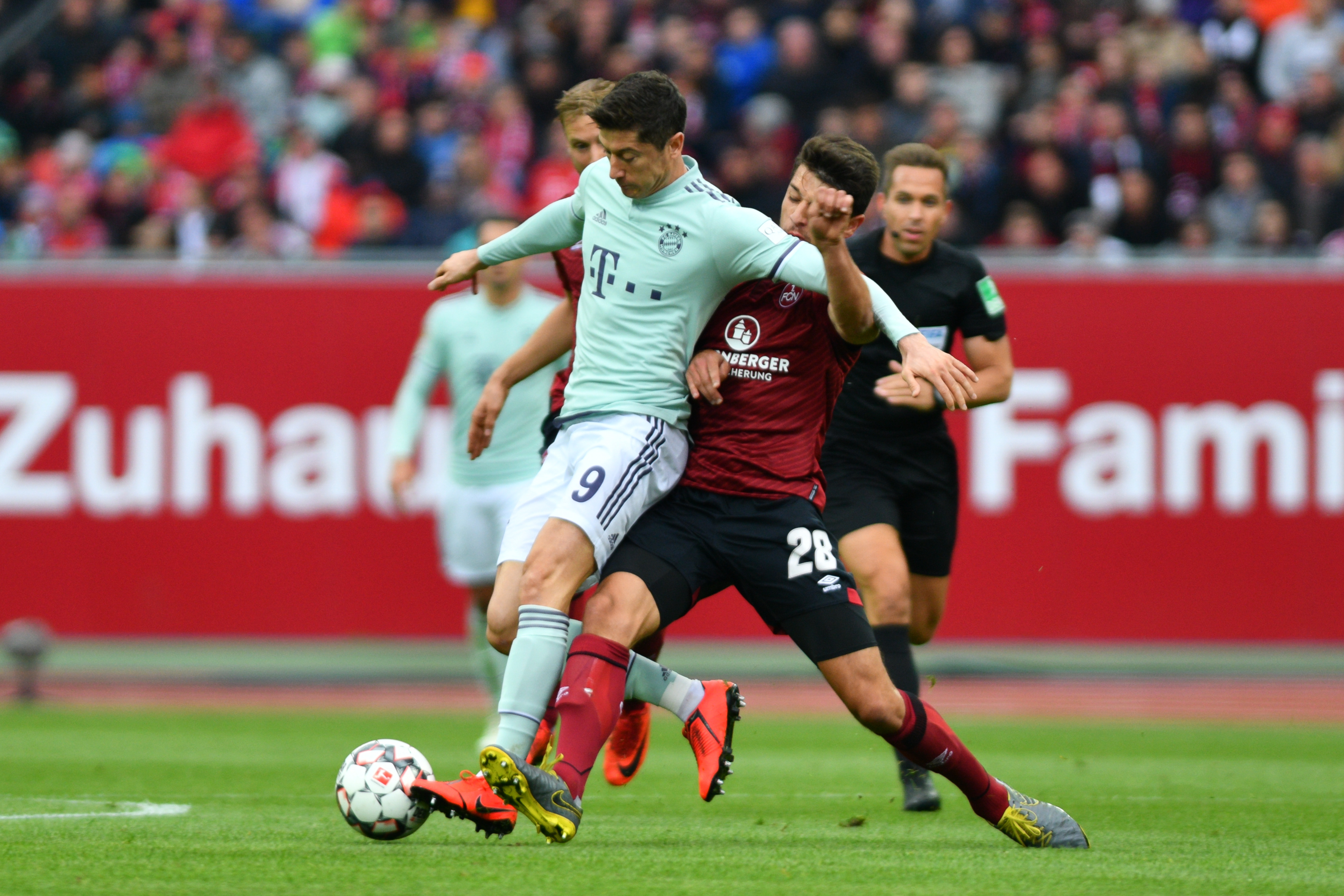 German Soccer League Season 2018/19, 31st match day 1. FC Nürnberg vs. 1. FC Bayern München. Picture shows: Mikael Ishak of Nuremberg gets challenged by Lukas Muehl of Nuremberg.